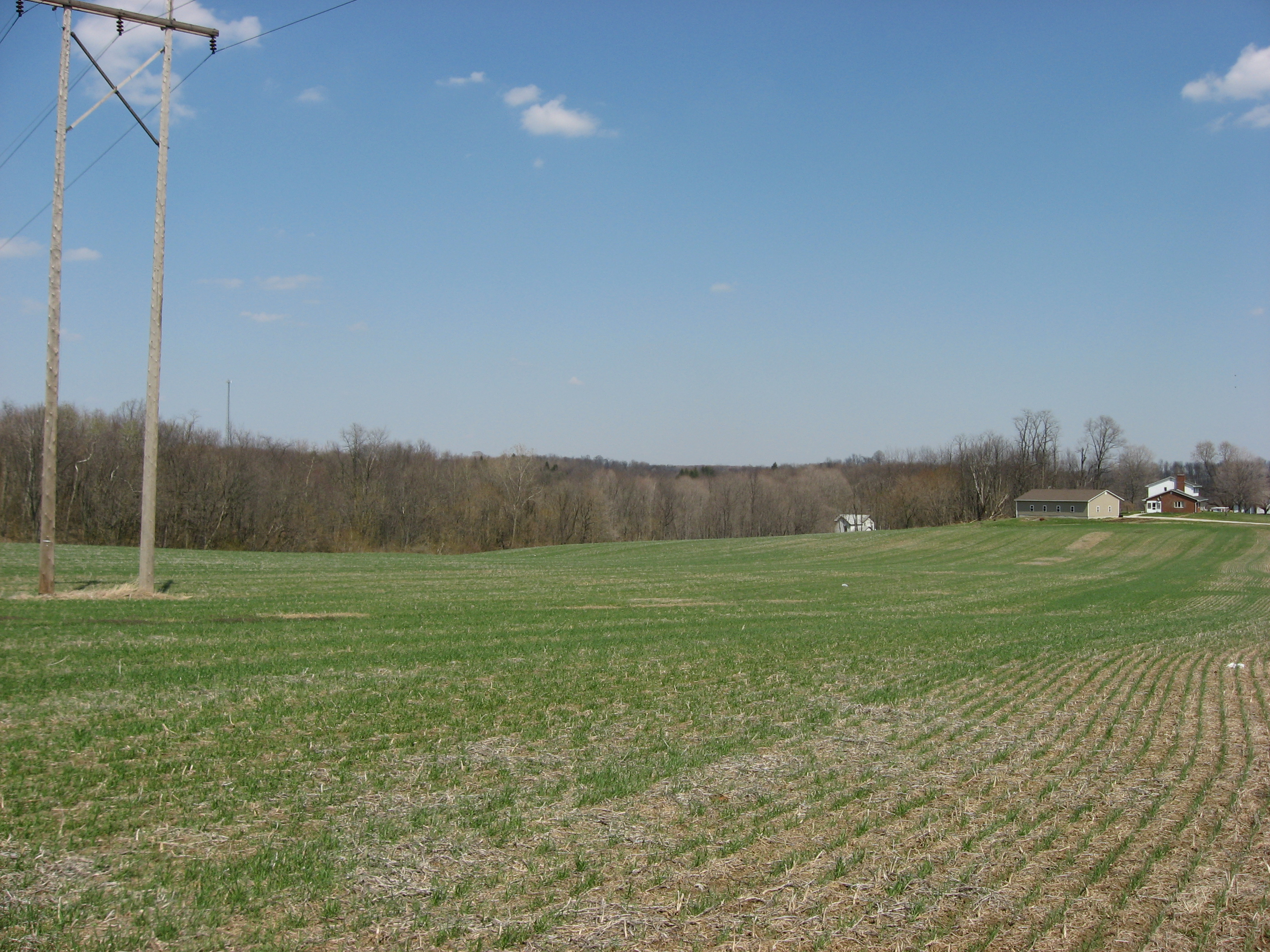 Countryside in southwestern Unity Township, Columbiana County, Ohio, United States. Picture was taken looking to the northeast from along State Route 558 east of East Fairfield.